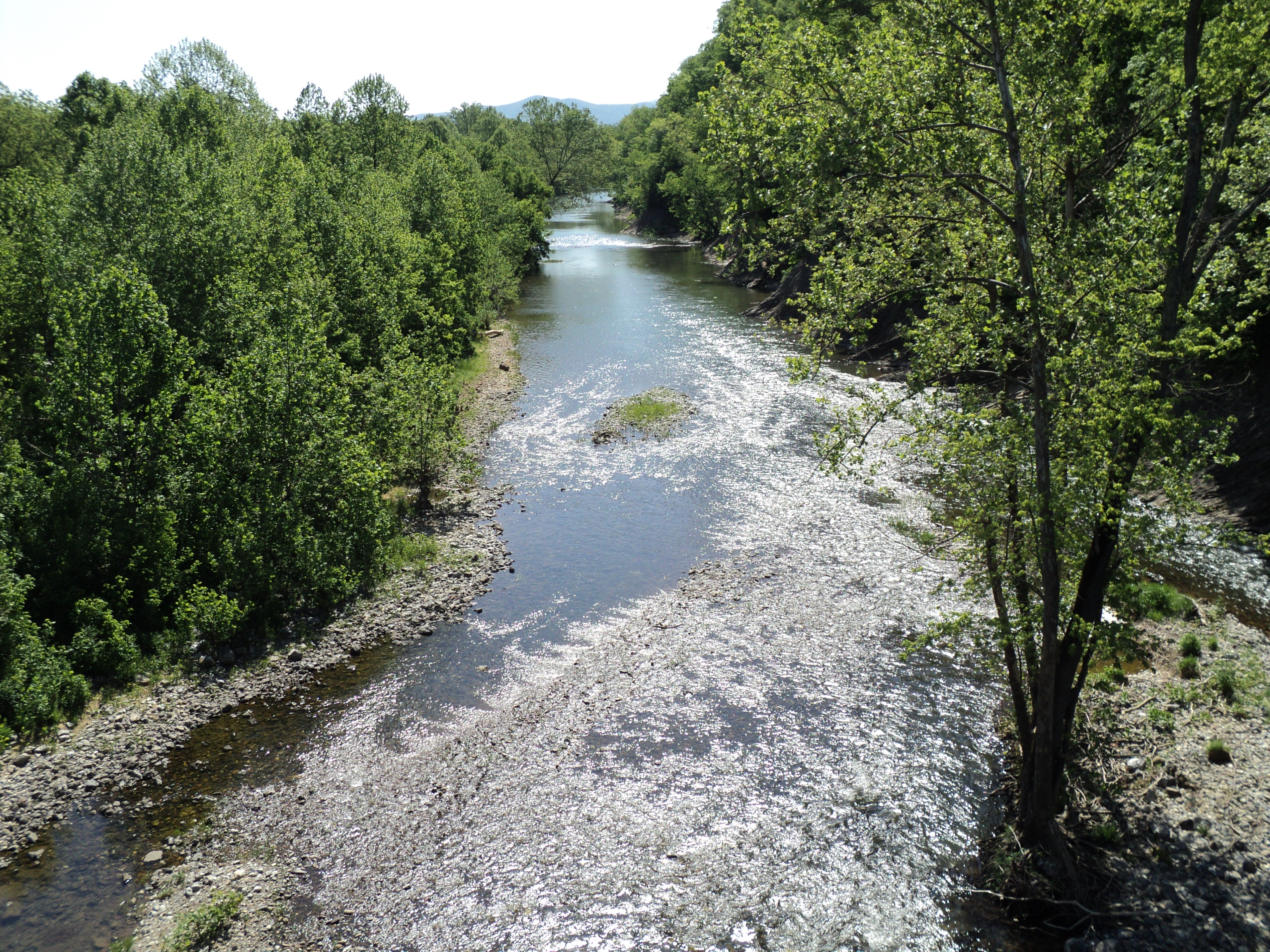 View of the Maury River seen from a bridge in Lexington, Virginia.